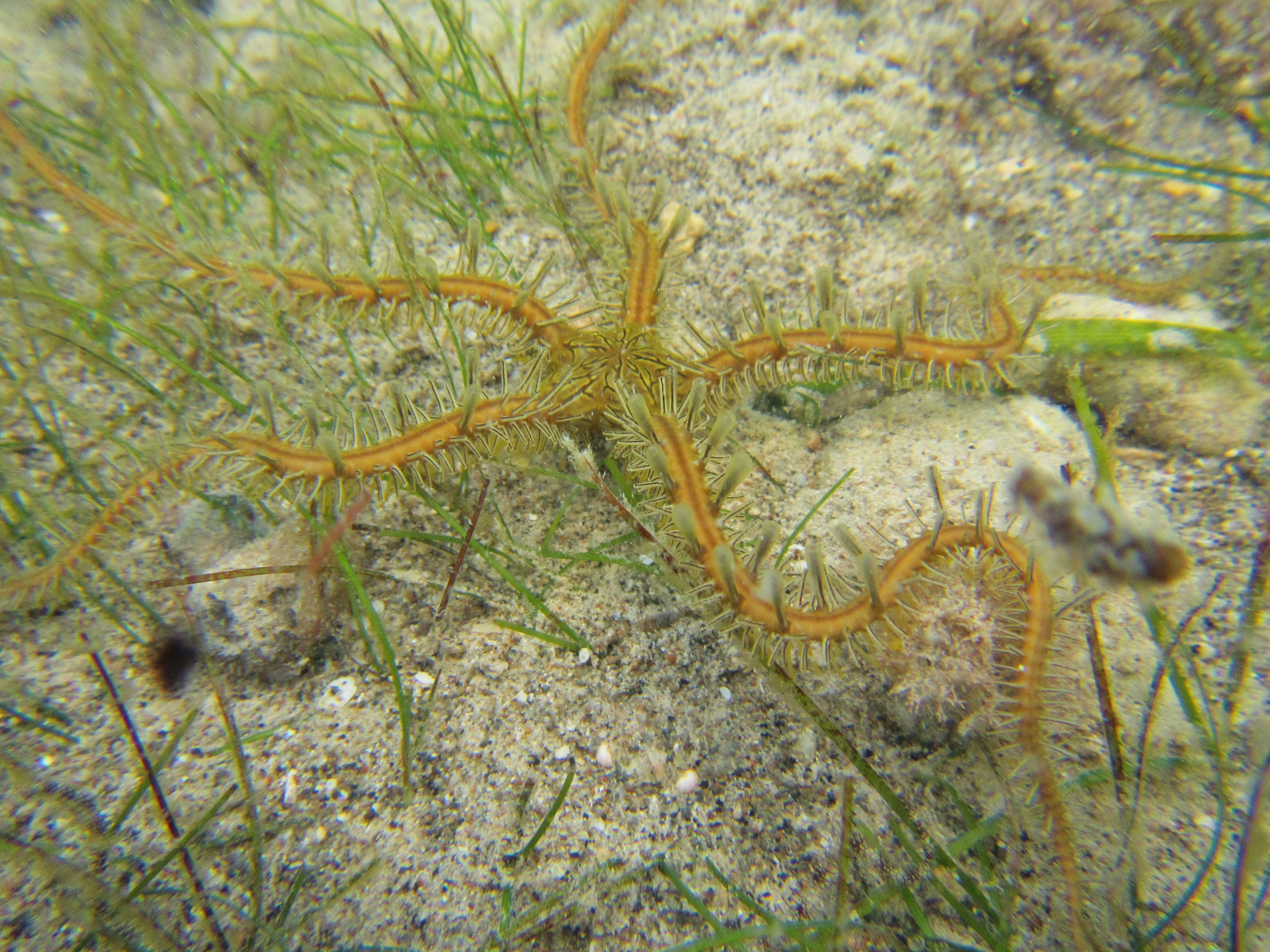 A golden brittlestar (Ophiomastix venosa) observed at Moya beach, Mayotte.